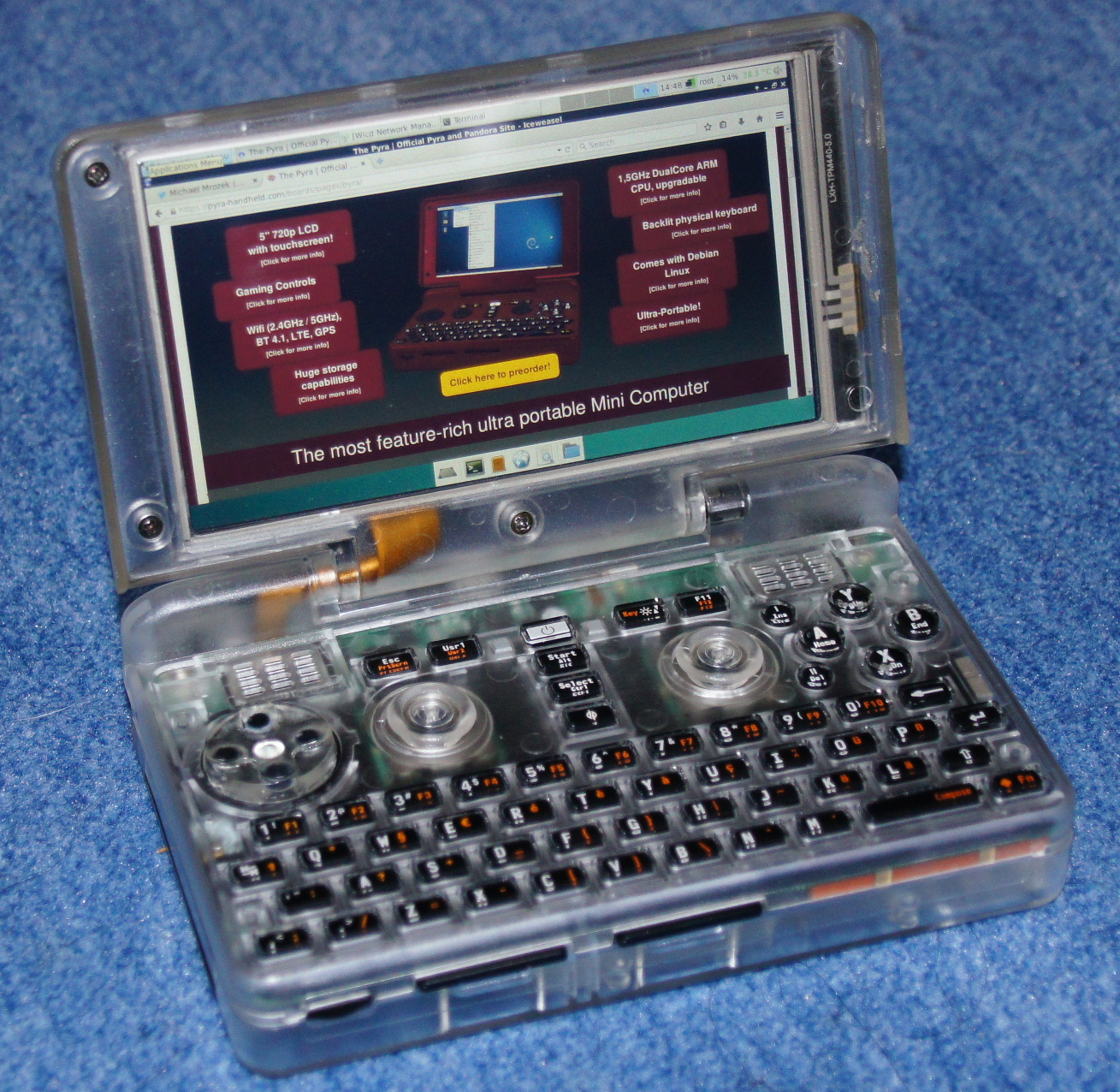 Pyra-Prototype-Full-4